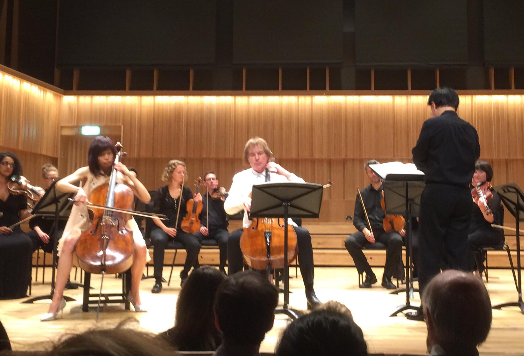 Julian and Jiaxin Lloyd Webber in recital